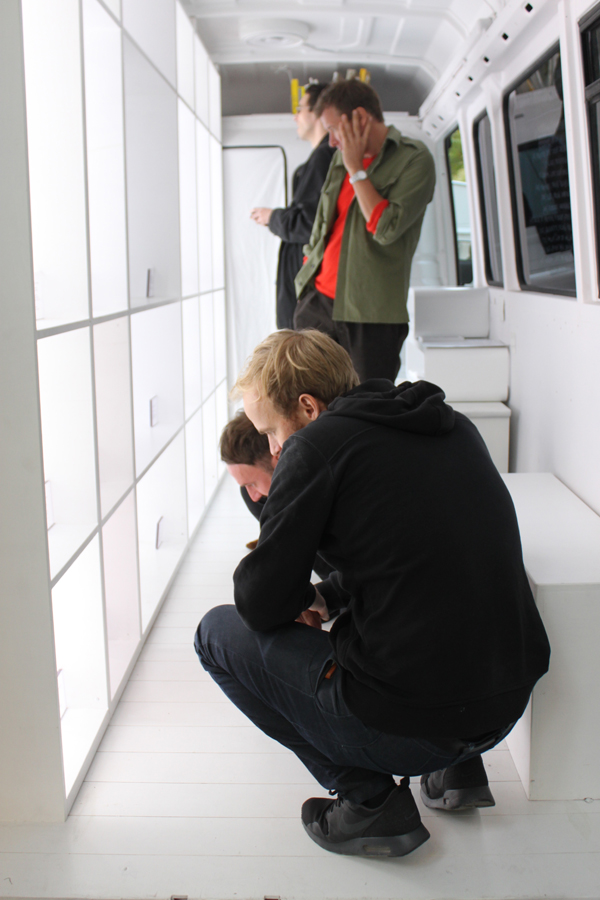 Exhibition of invisible artworks during the No Show Museum European Tour, 2015.